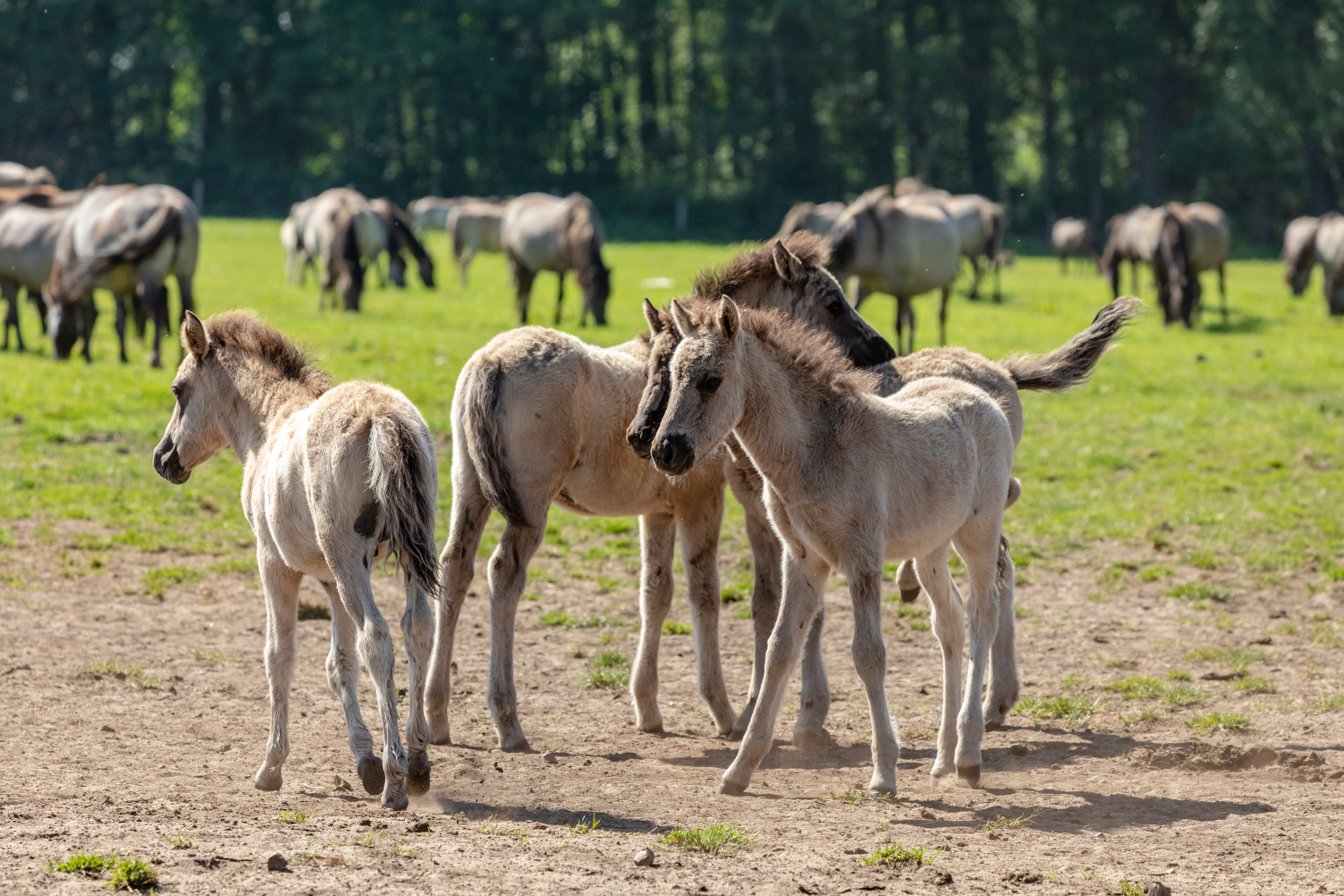 Dülmen pony in the Merfeld Bruch, Merfeld, Dülmen, North Rhine-Westphalia, Germany